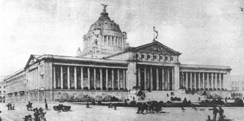 Palacio Legislativo Federal. Project. Henri Jean Émile Bénard